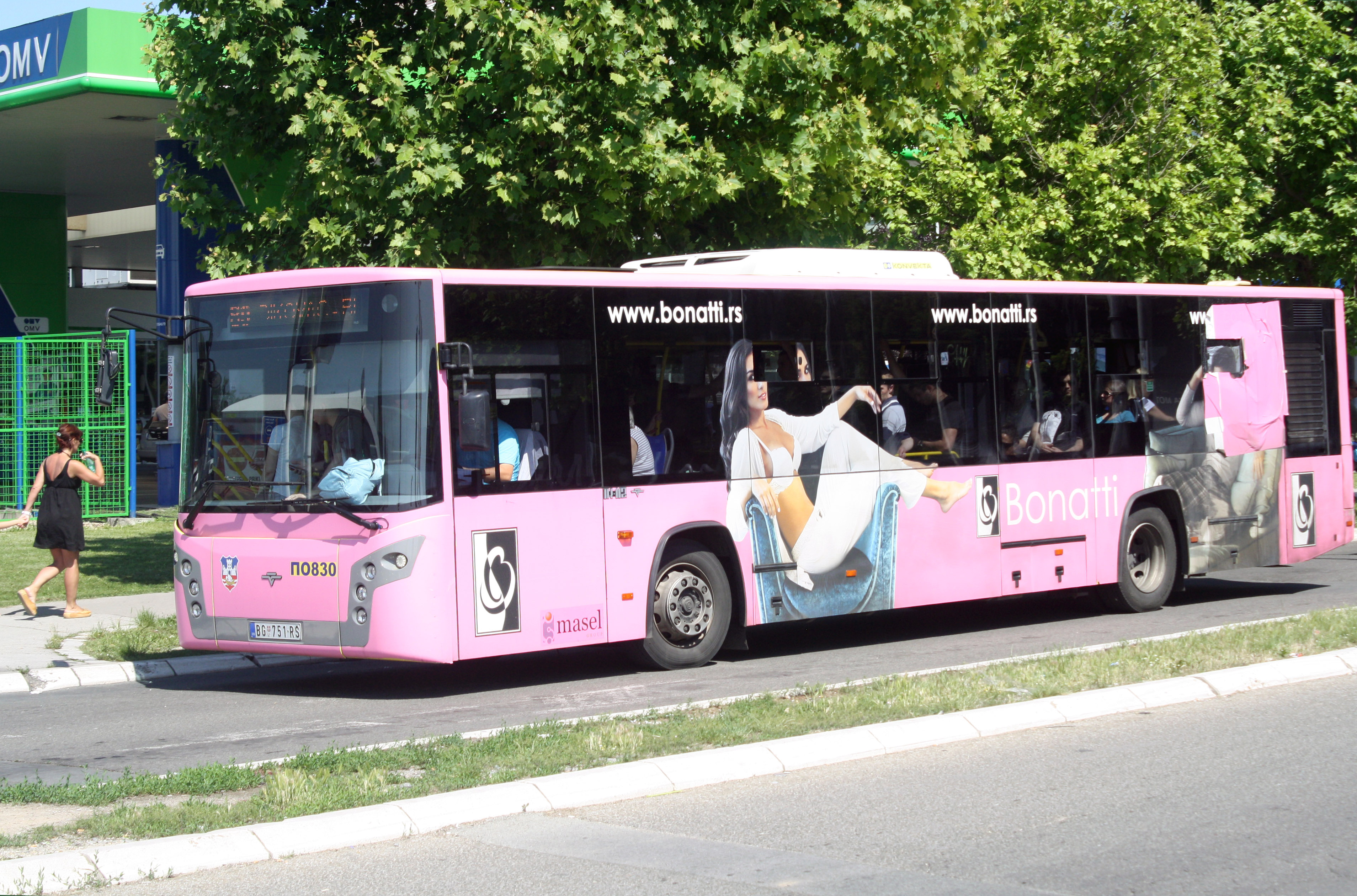 Ikarbus IK 112 city bus of LUI Travel in Belgrade on line 89.